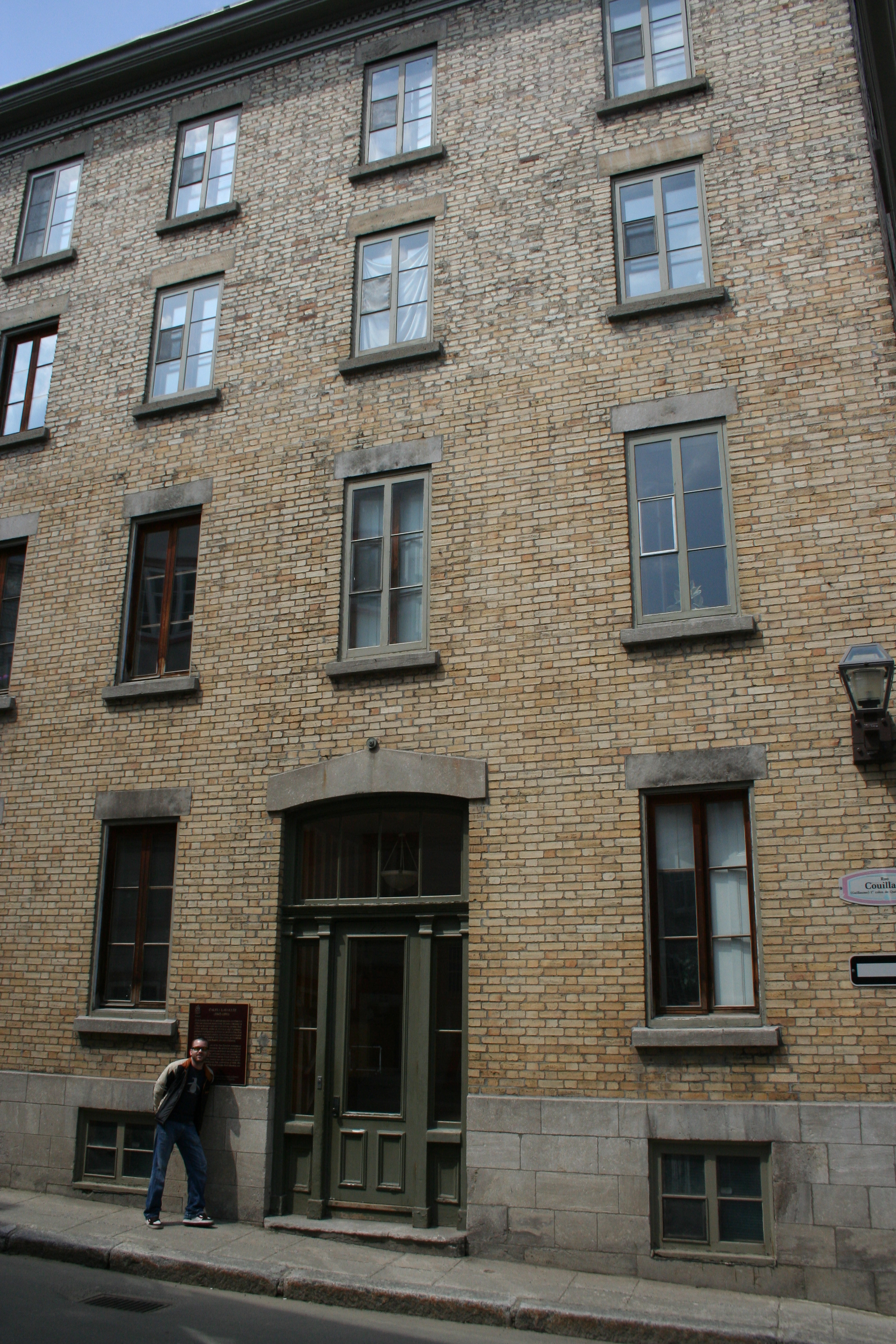 The house in Vieux-Quebec in which the original version of O Canada was written Angle rue Couillard et Hamel, Vieux-Québec, Québec, Canada